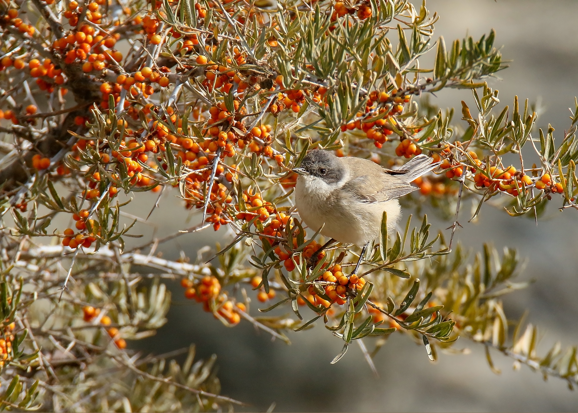 Lesser Whitethroat (Sylvia curruca) captured at Borit, Gojal, Gilgit-Baltistan, Pakistan with Canon EOS 7D Mark II